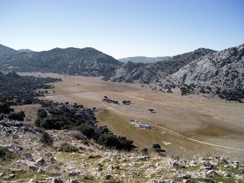 Llanos de Libar. Polje in 975m of the Sierra de Libar, Province Málaga, Spain; high precipitation (1500mm in the non-hot seasons) runs through furrows towards the draining Ponors